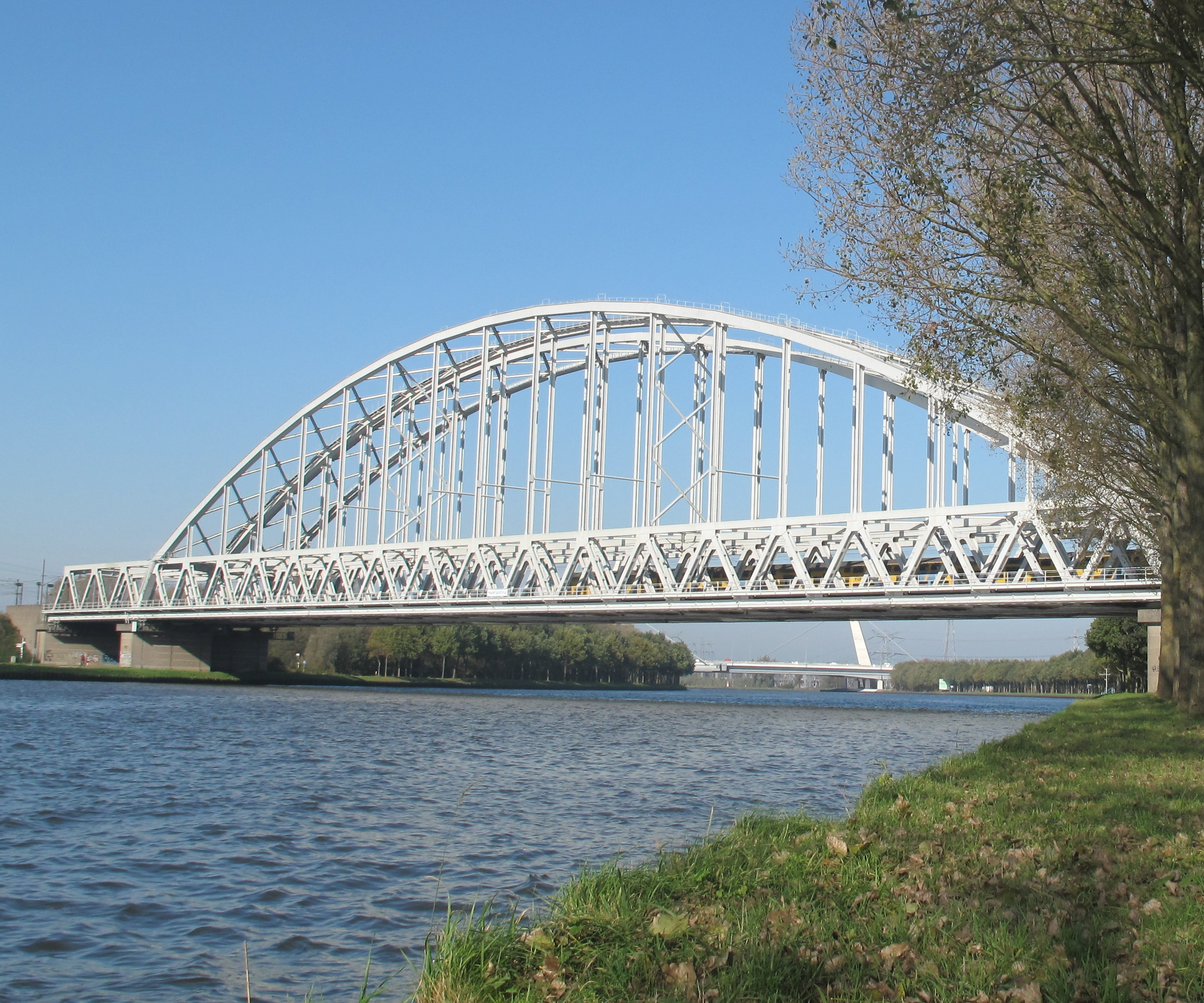 between Driemond and Weesp, railway bridge across Amsterdam Rijnkanaal